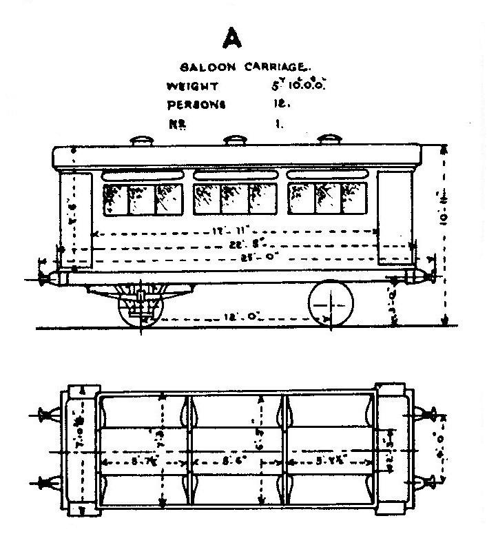 Type drawing of JGR's passenger car Class A